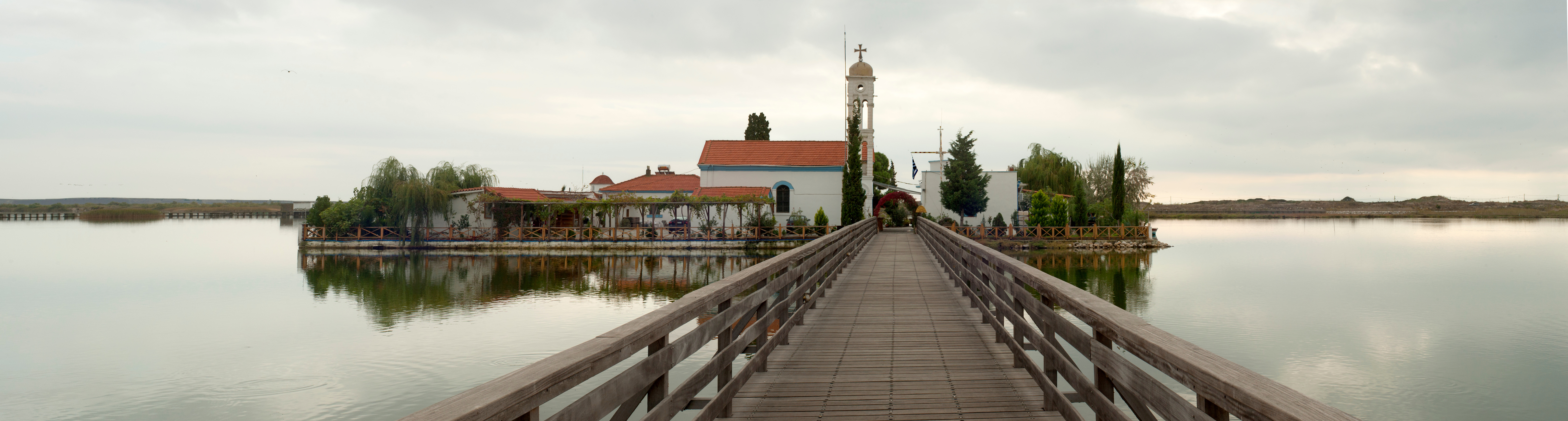 Porto Lagos, Agios Nikolas (Metochi of monastery of Batopedio), Vistonida lake, Xanthi, Greece.